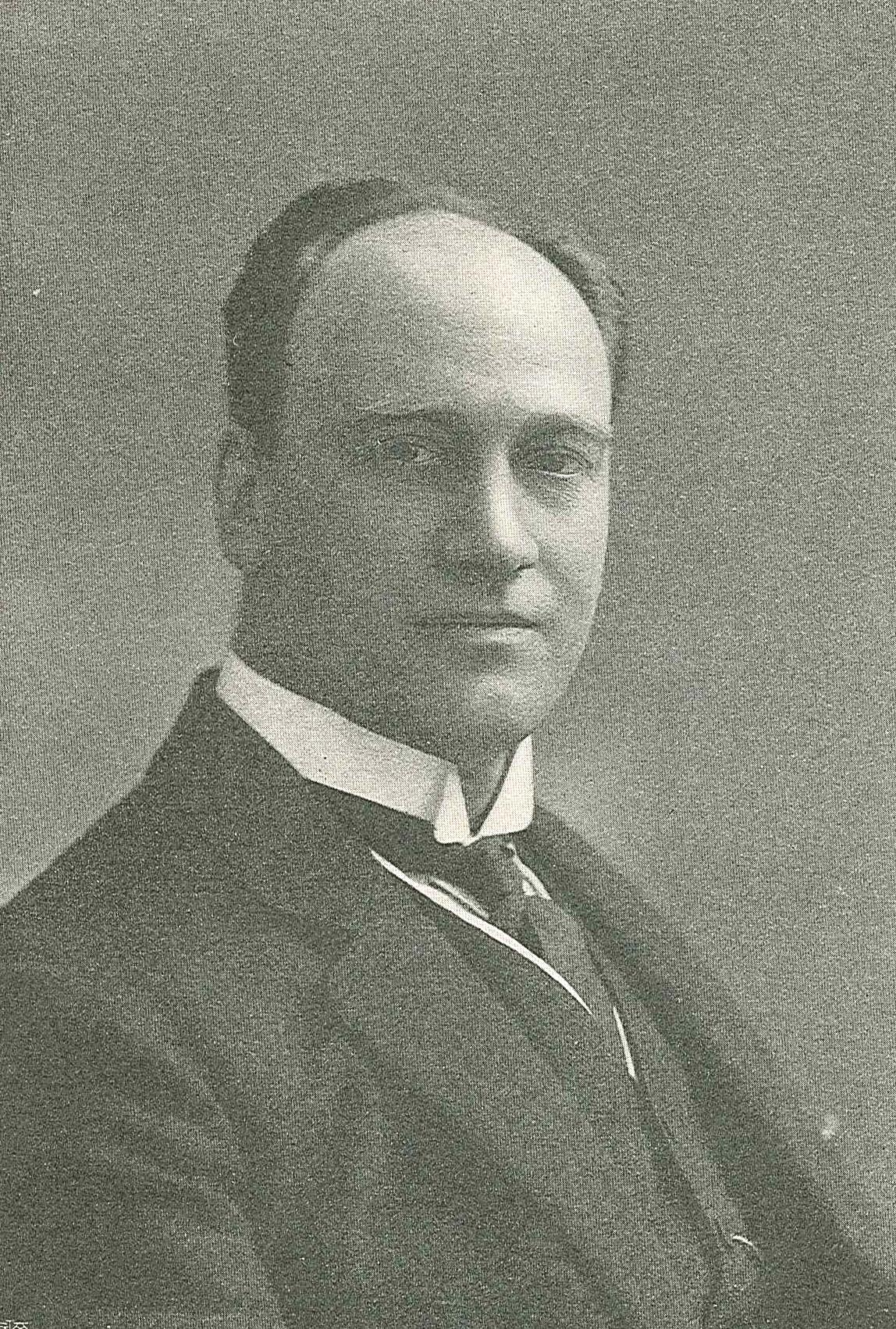 Oskar Textorius (1864-1938), Swedish actor, director and theatre manager